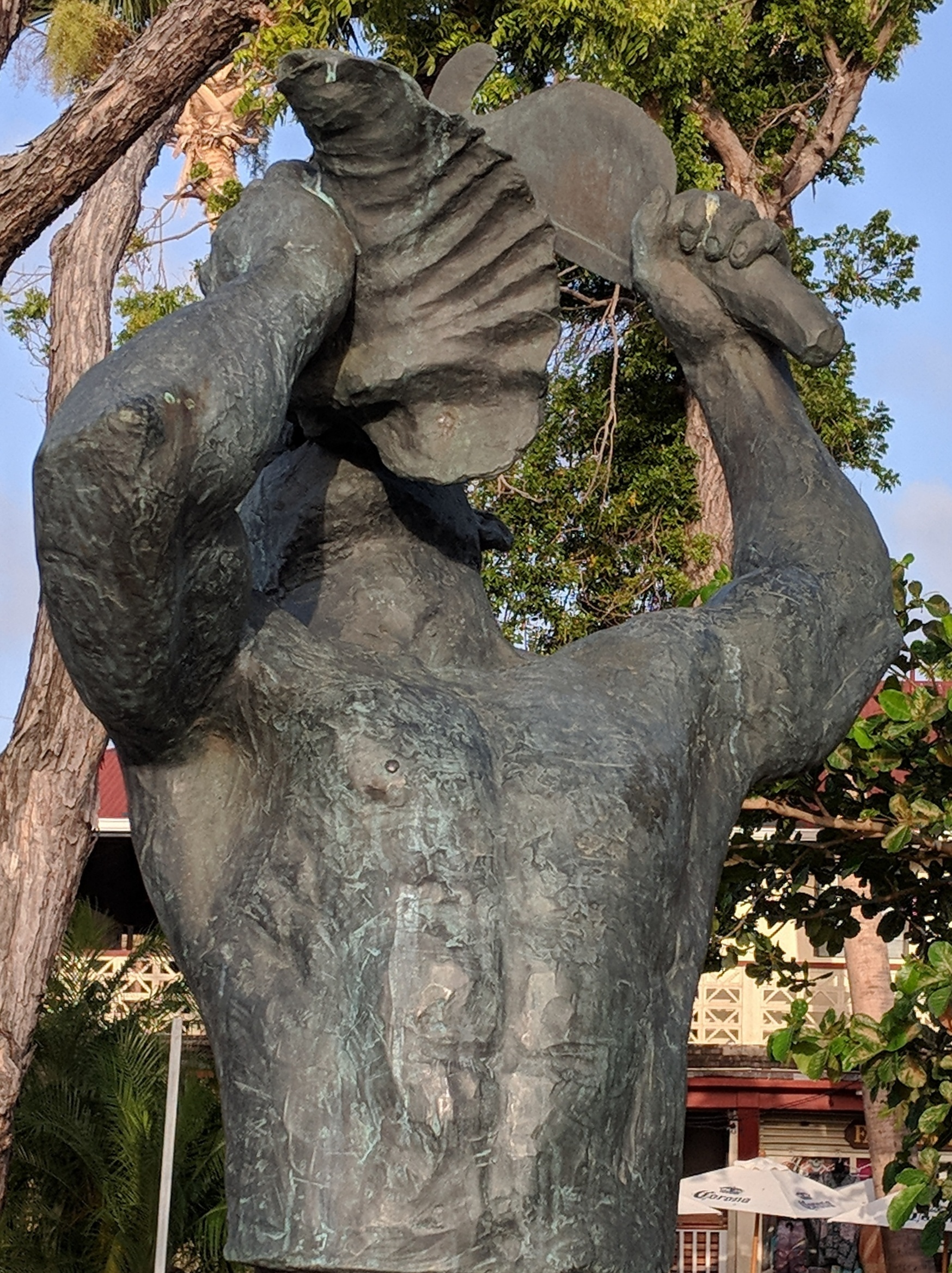 In 1848, conch blowers and drums called slaves to gather in Frederiksted for the slave insurrection that led to immediate emancipation in the Danish West Indies. There are several copies of "Freedom Statue" throughout the United States Virgin Islands and Denmark. The statue pictured is located in Franklin A. Powell Sr. Park in Cruz Bay, Saint John.